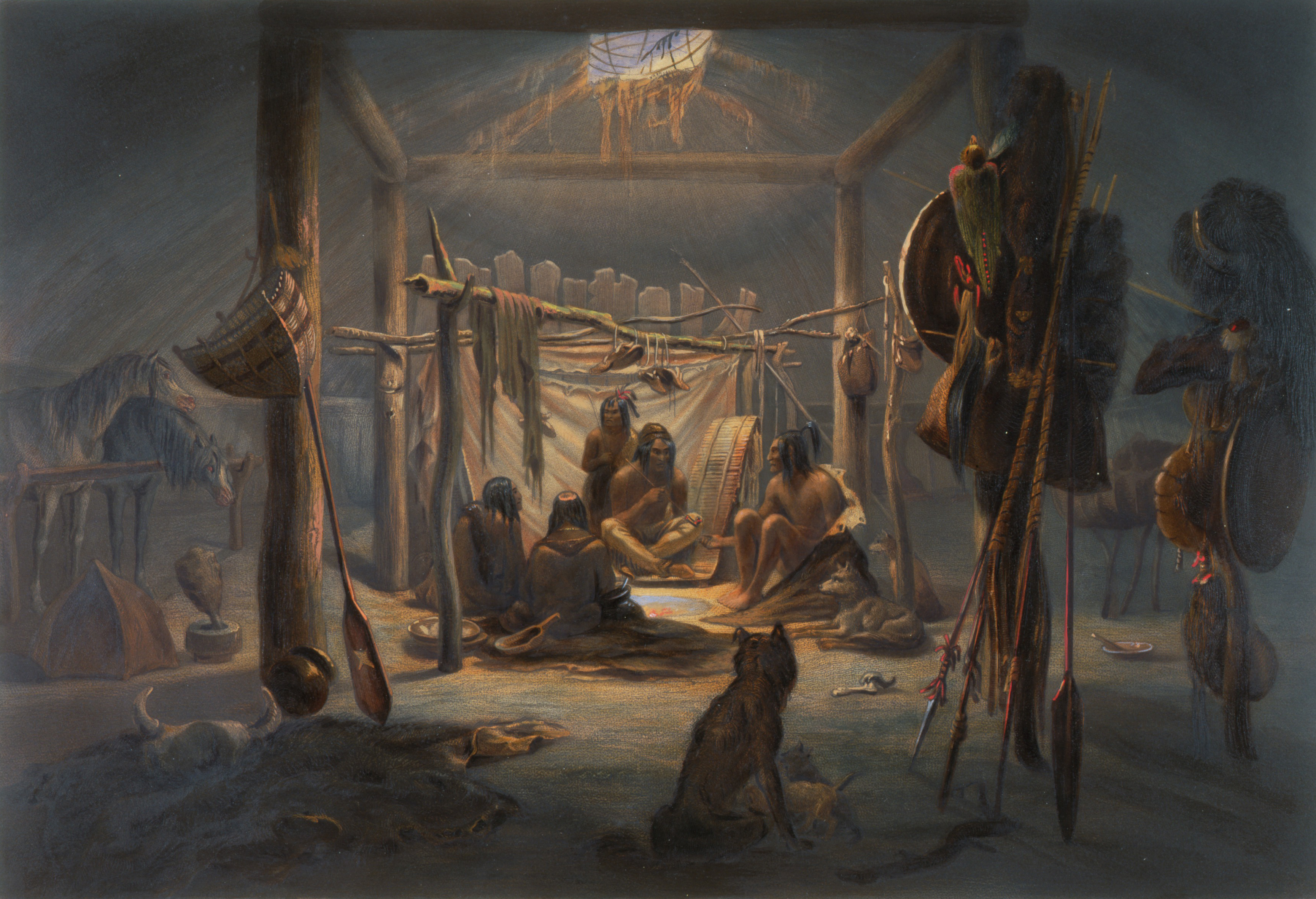 The Interior of the Hut of a Mandan Chief by Karl Bodmer 1833 – 1834.